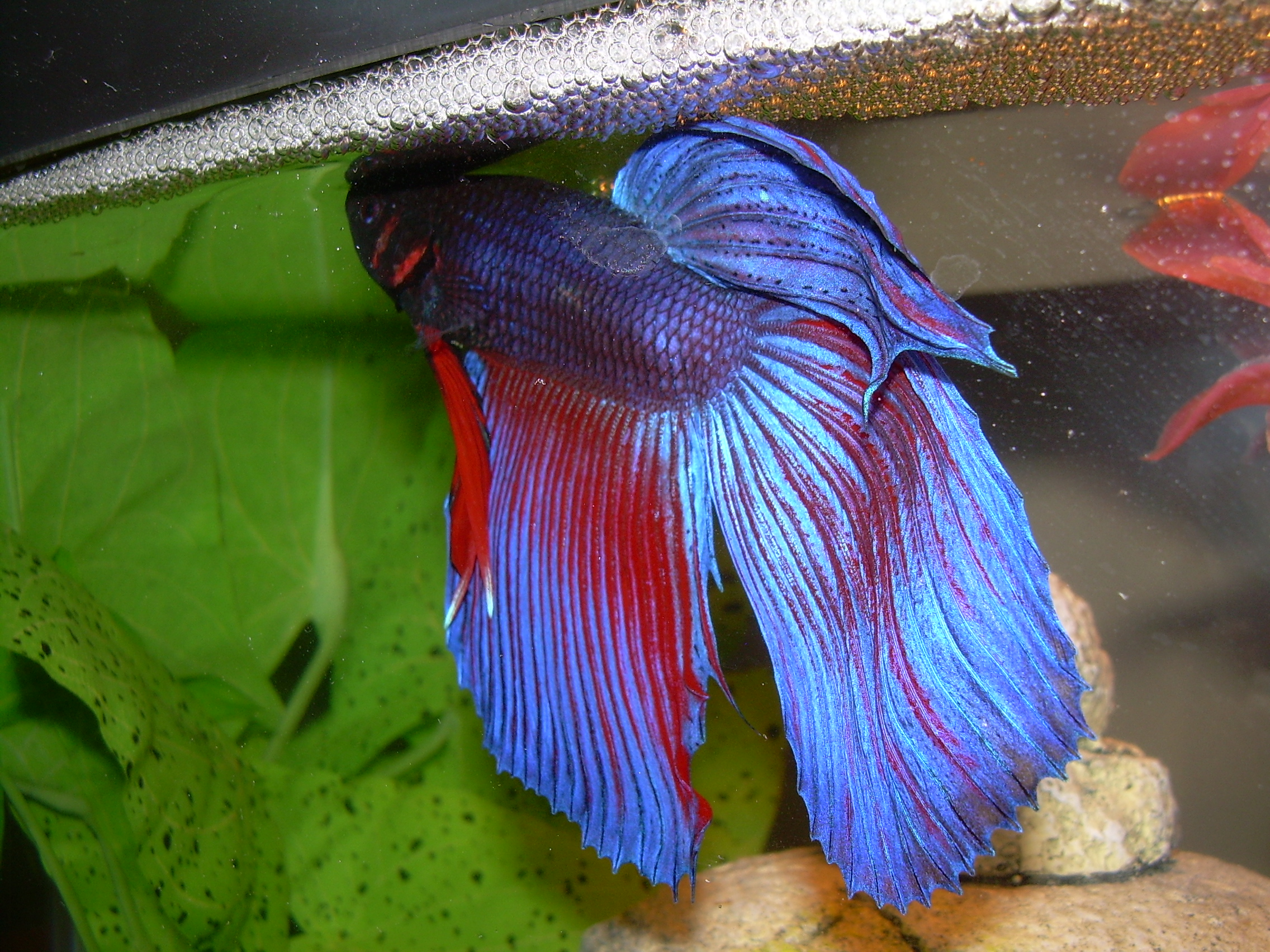 Red and blue Betta splendens, shown with bubble nest.